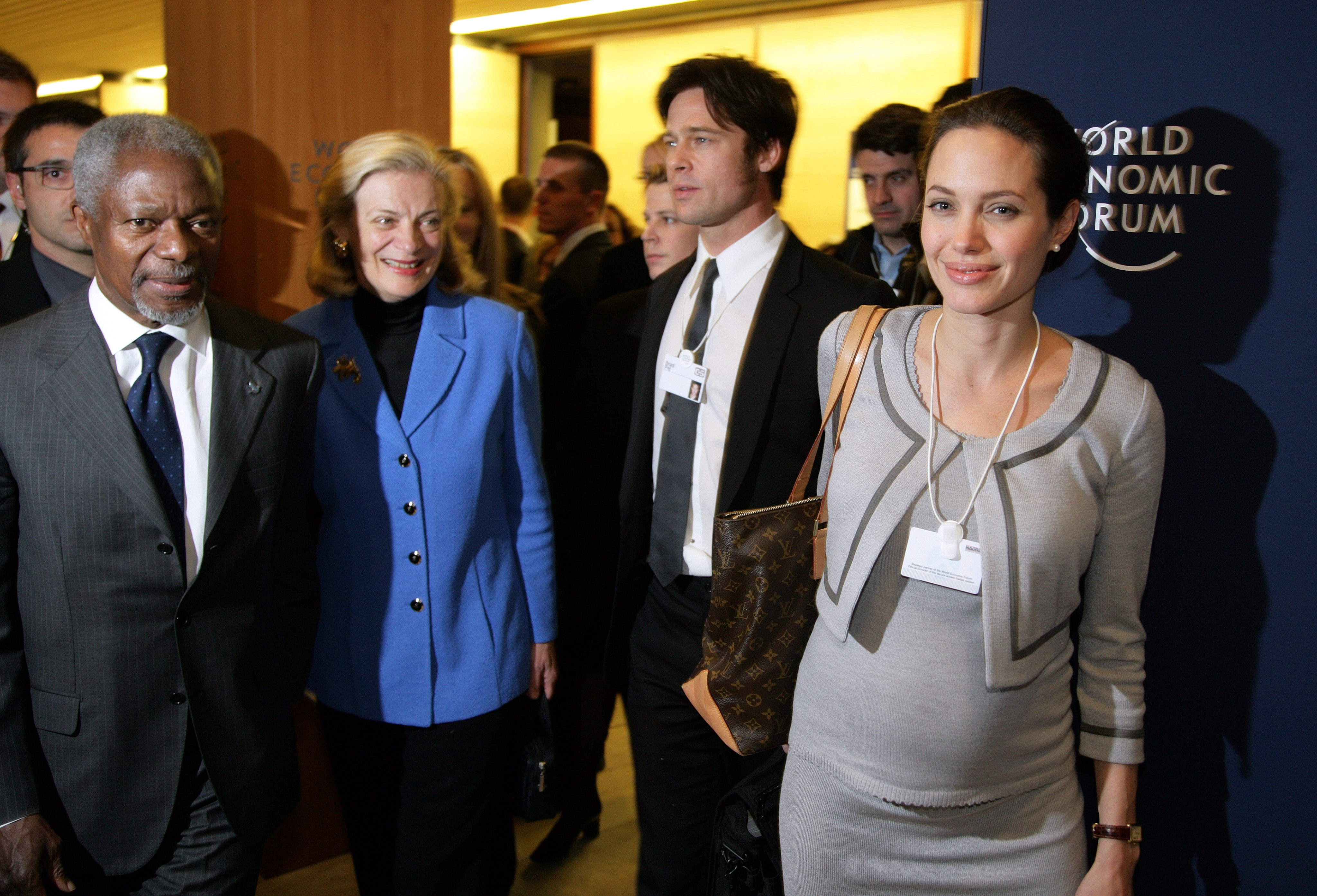 DAVOS/SWITZERLAND, 26JAN06 - FR: Angelina Jolie, UNHCR Goodwill Ambassador, Brad Pitt and Kofi Annan, Secretary-General, United Nations, New York with his spouse leaving the session 'A New Mindset for the UN' at the Annual Meeting 2006 of the World Economic Forum in Davos, Switzerland, January 26, 2006. Copyright by World Economic Forum by Andy Mettler